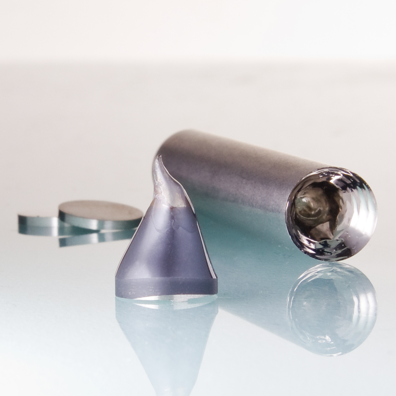 Pieces of the metallic glass Vitreloy 4. Chemical composition: Zr47 Ti8 Cu7.5 Ni10 Be27.5 The diameter of the cylinder is 1 centimeter (approx. 0.39 inch).